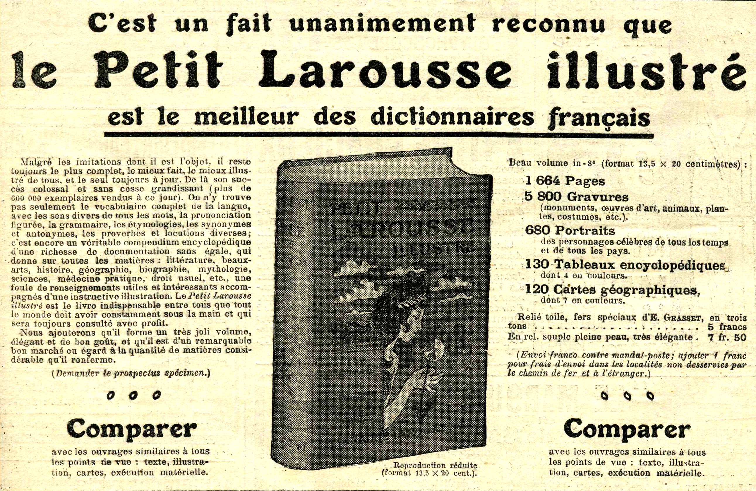 1910 advertisement for Petit Larousse illustré